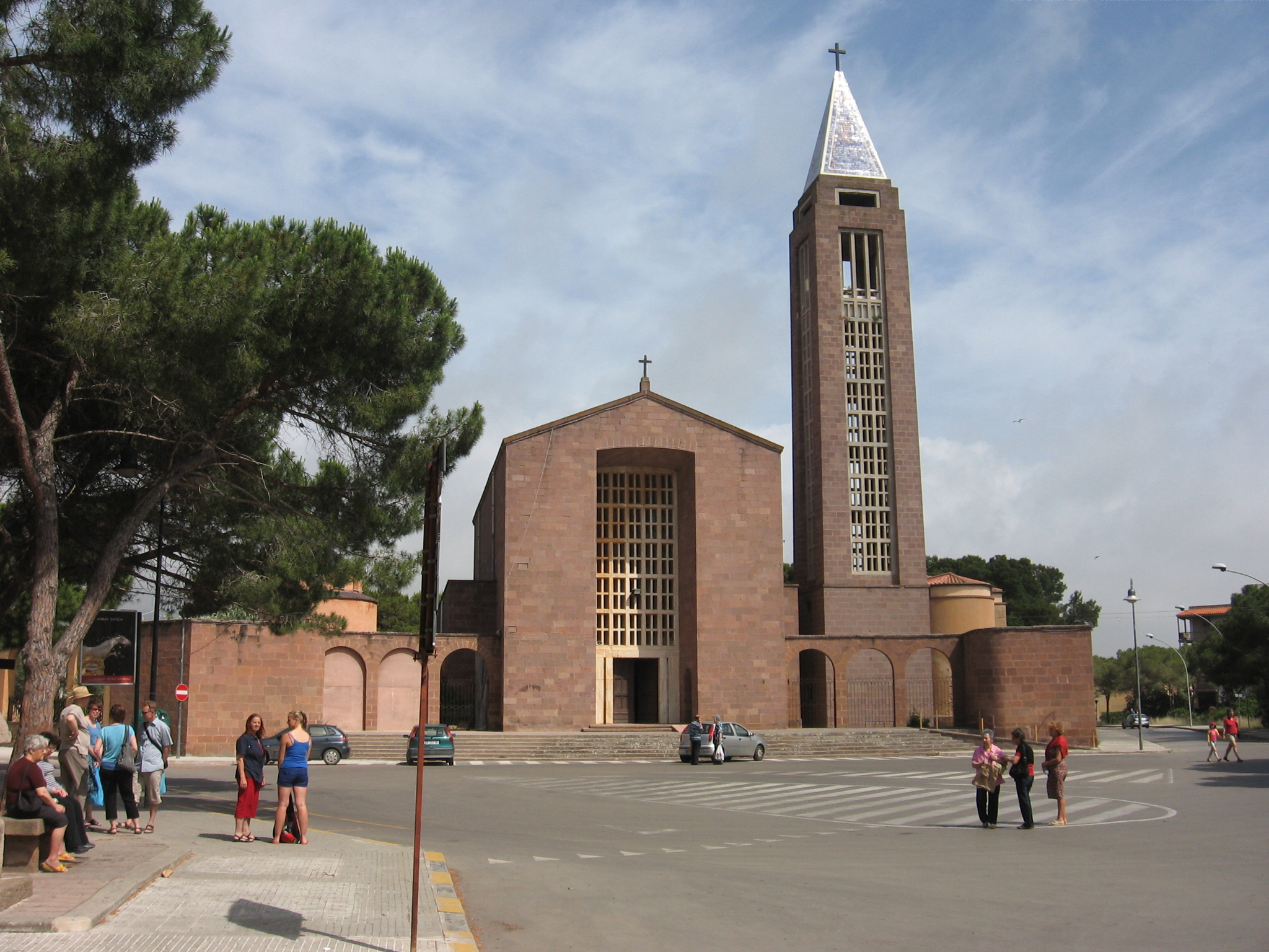 Fertilia